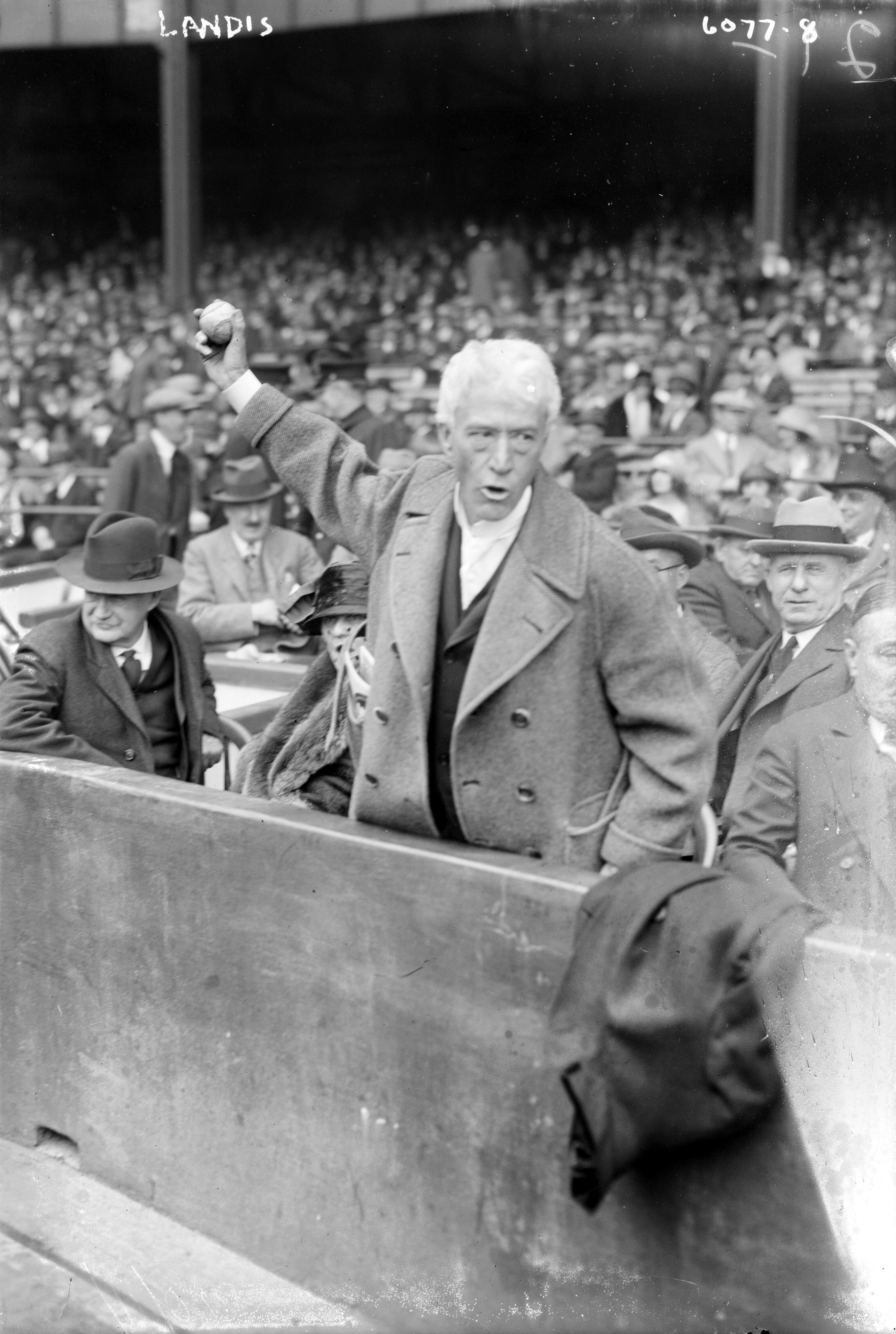 Baseball Commissioner Kenesaw M. Landis throws out the first pitch, 1924.